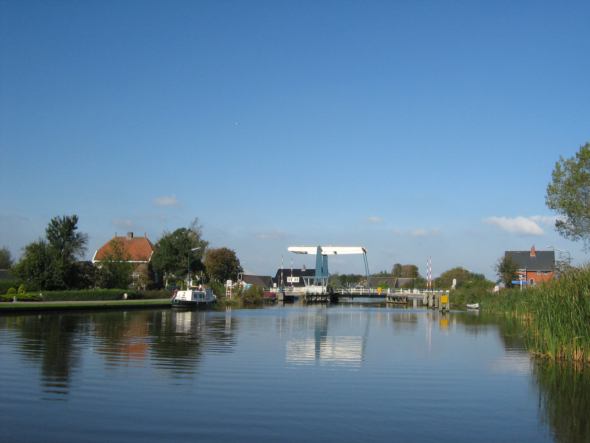 Photograph of the main bridge in De Hoef, a village in the province of Utrecht, the Netherlands. The water is the Kromme Mijdrecht. The road running across the bridge is called De Oude Spoorbaan. Photograph taken from the south on October 6 2007 by the uploader, who has donated it to the public domain.